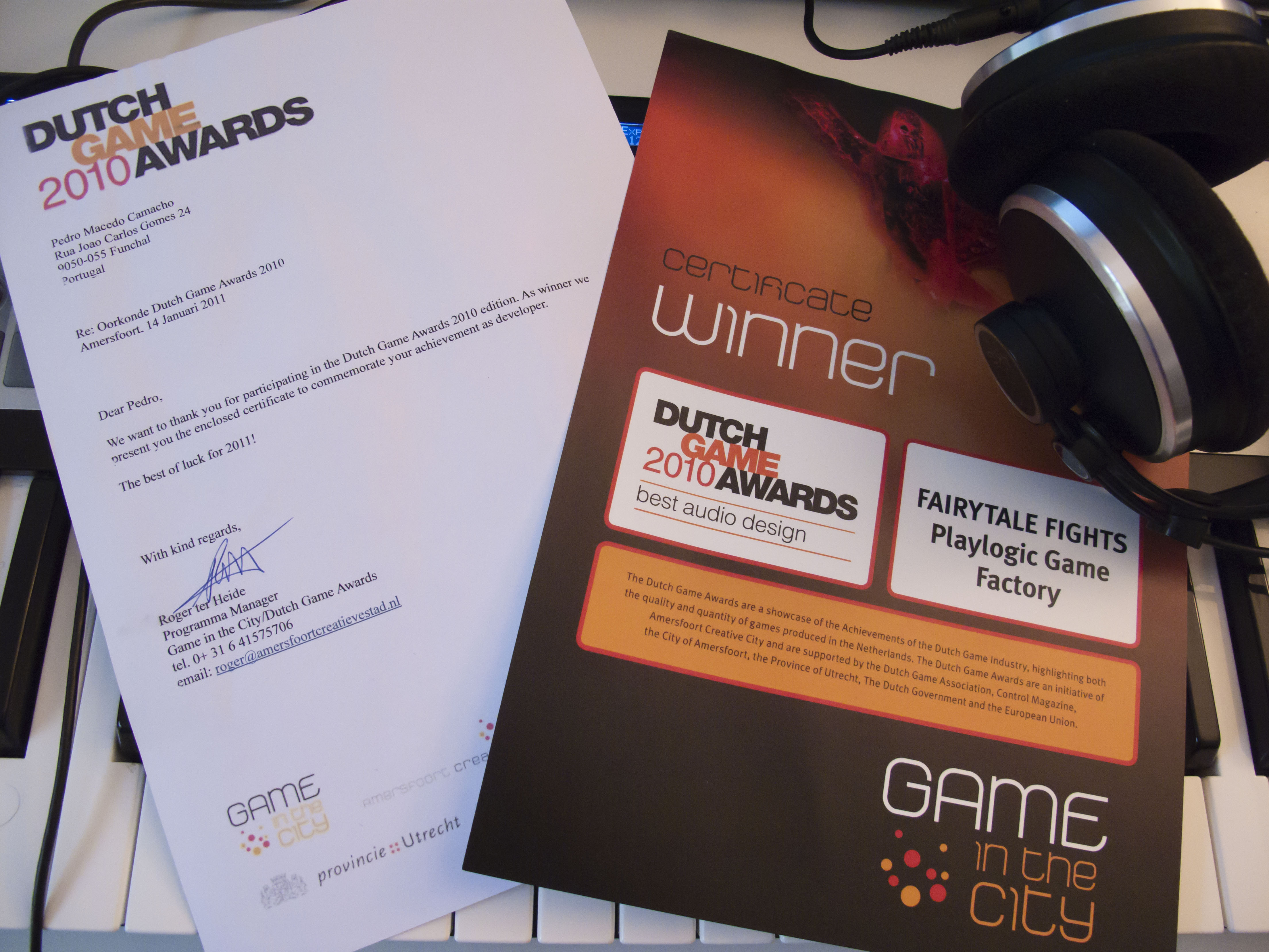 Photo taken by Pedro Macedo Camacho in his studio.